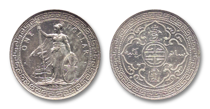 British Trade Dollar B Mint 1900